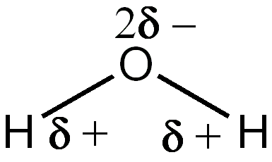 Dipole, water.